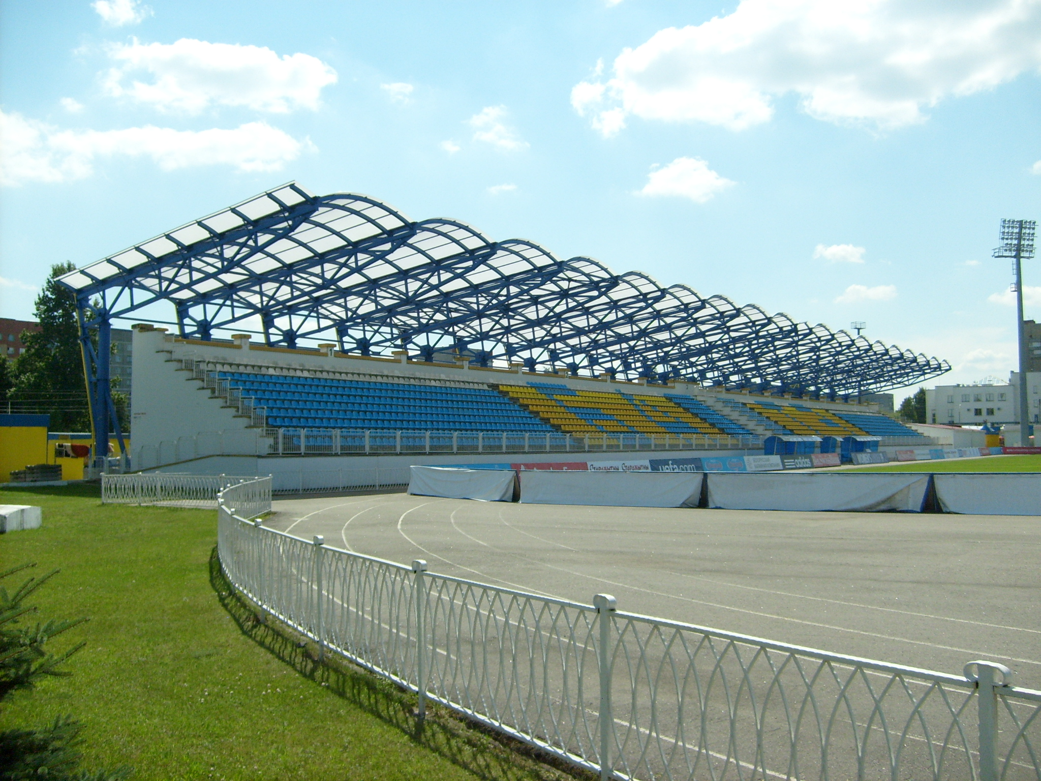 Haradzki Stadium. East stand